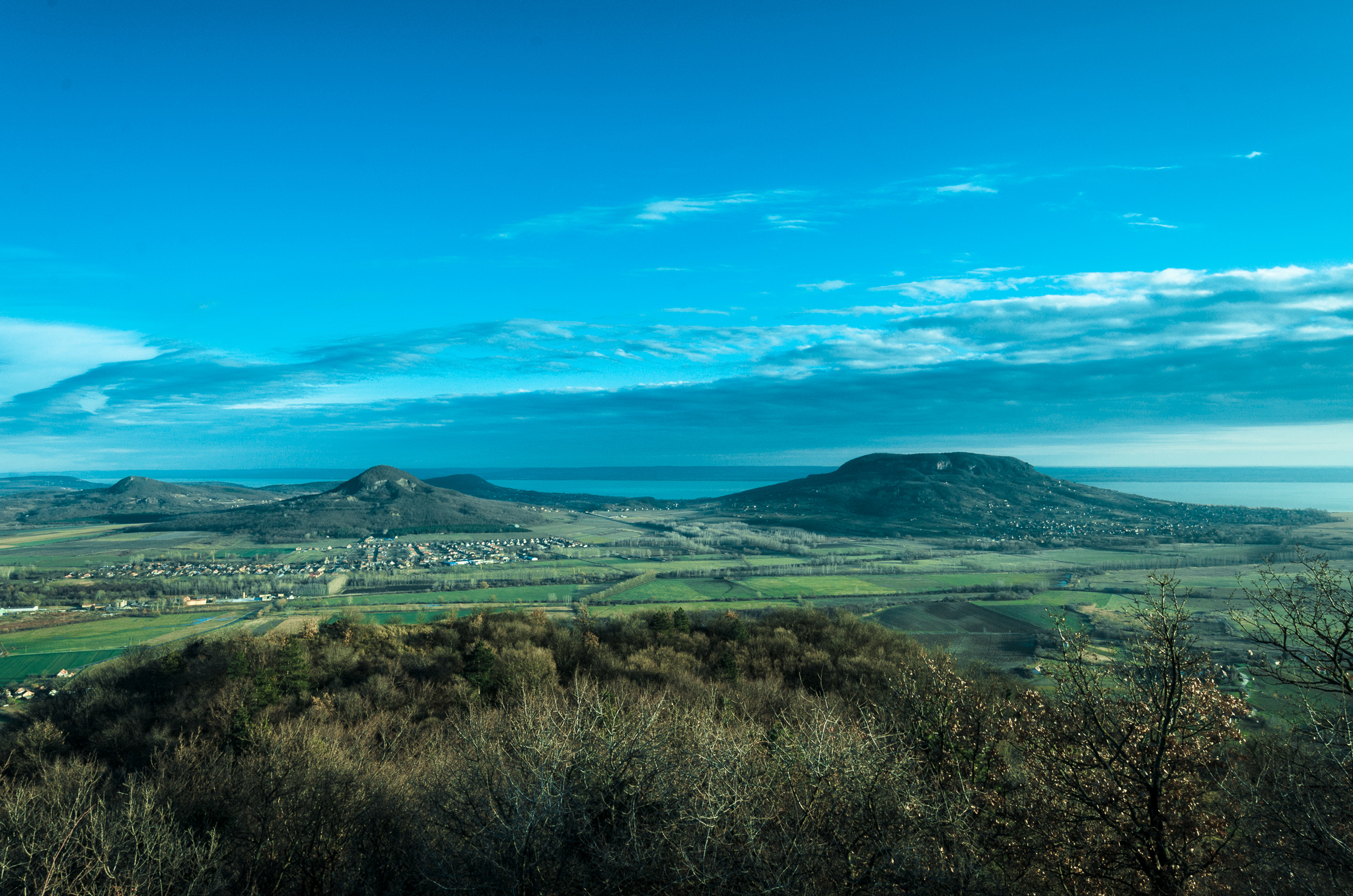 Some of the extinct volcanoes of the Bakony-Balaton Highland Volcanic Field near Lake Balaton in Hungary. The volcanoes are Tóti-hegy (on left), Gulács (in middle) and Badacsony (on right). These volcanoes are of Neogene age, between 3 and 6 million years old.